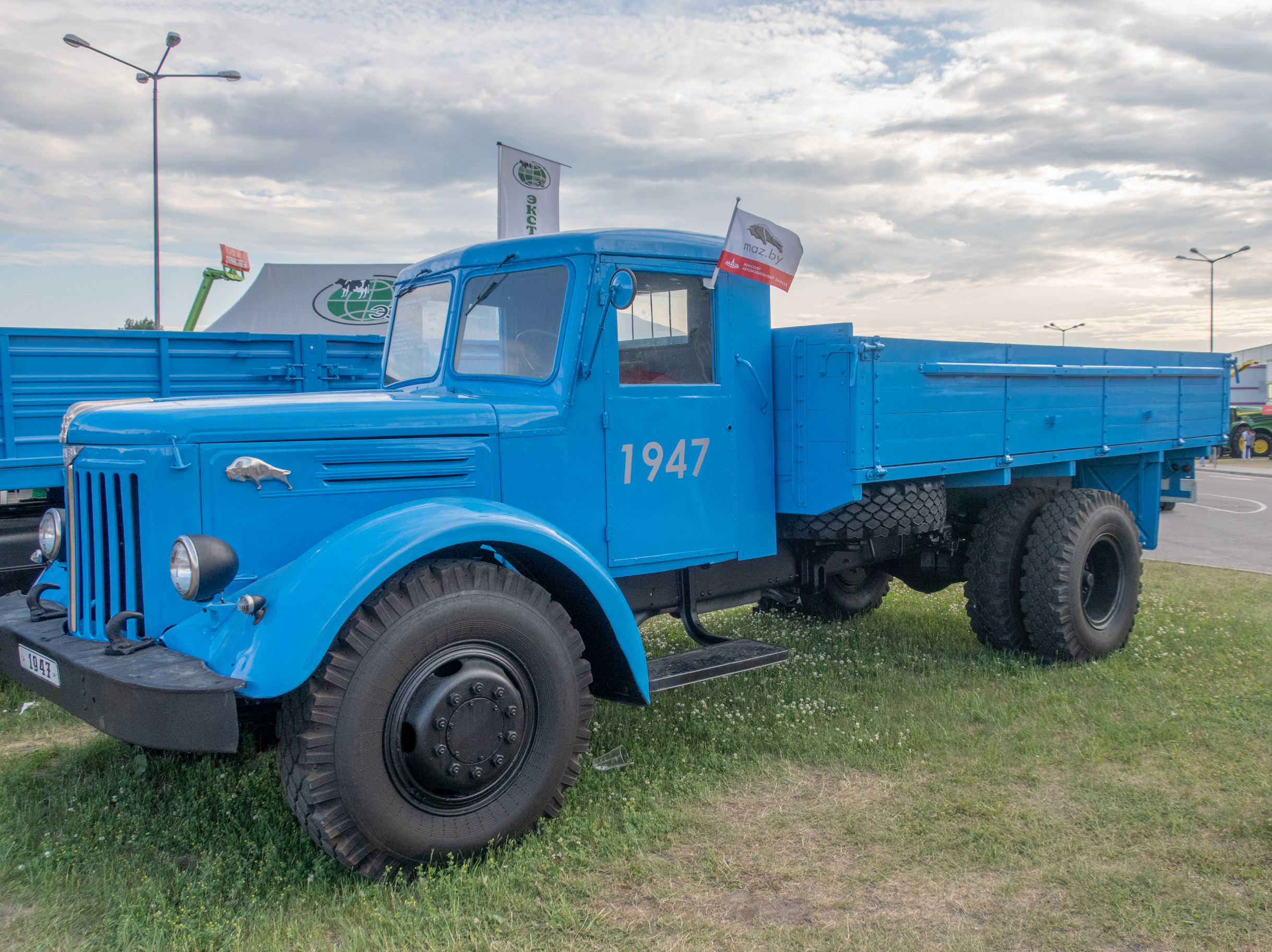 MAZ-200. Photo taken at Belagro-2019 exhibition (Minsk district, Belarus)